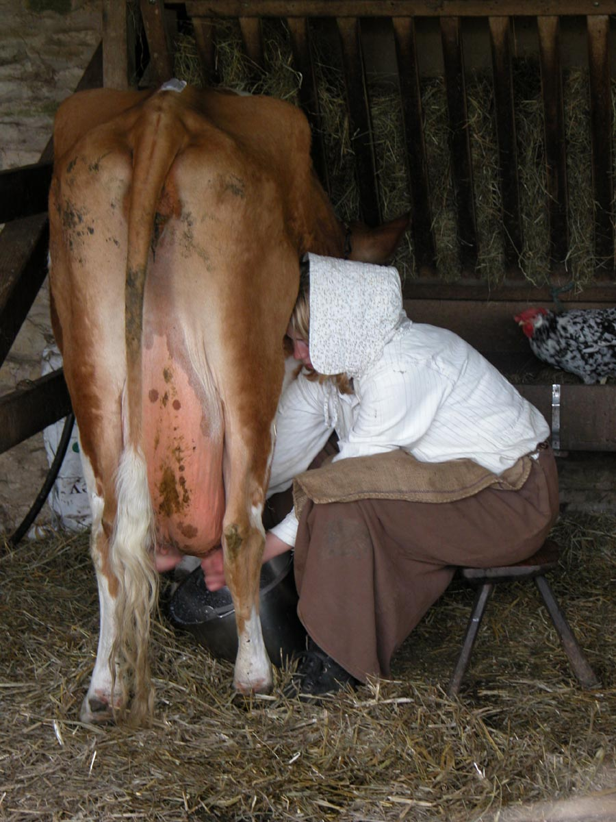 Hand milking a cow, at Cobbes farm museum. This is a deliberate recreation, including the dress of the milkmaid.